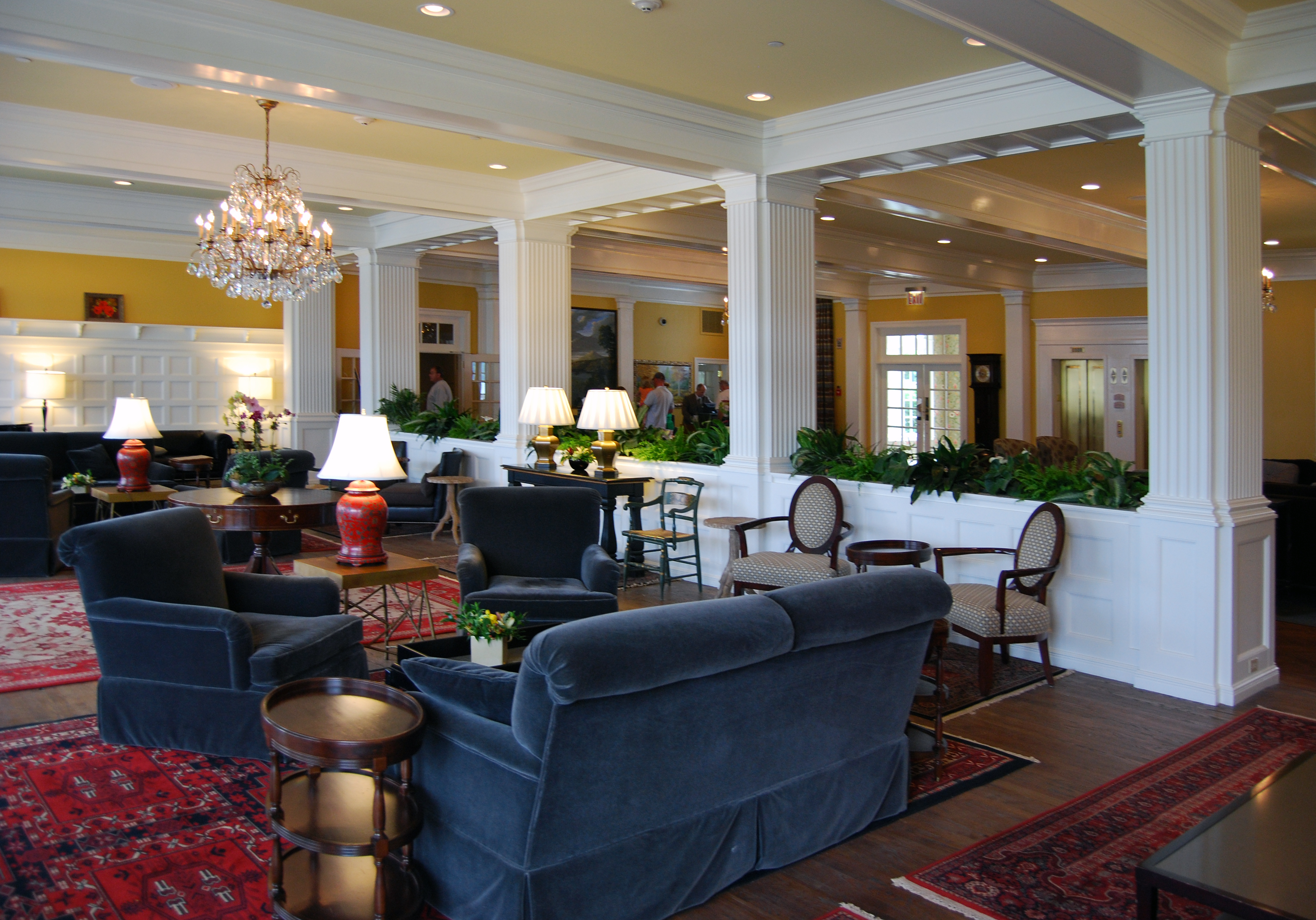 Lobby of The Sagamore, a Victorian era hotel on the shore of Lake George in Bolton Landing, New York, United States. The hotel was added to the National Register of Historic Places in 1983.